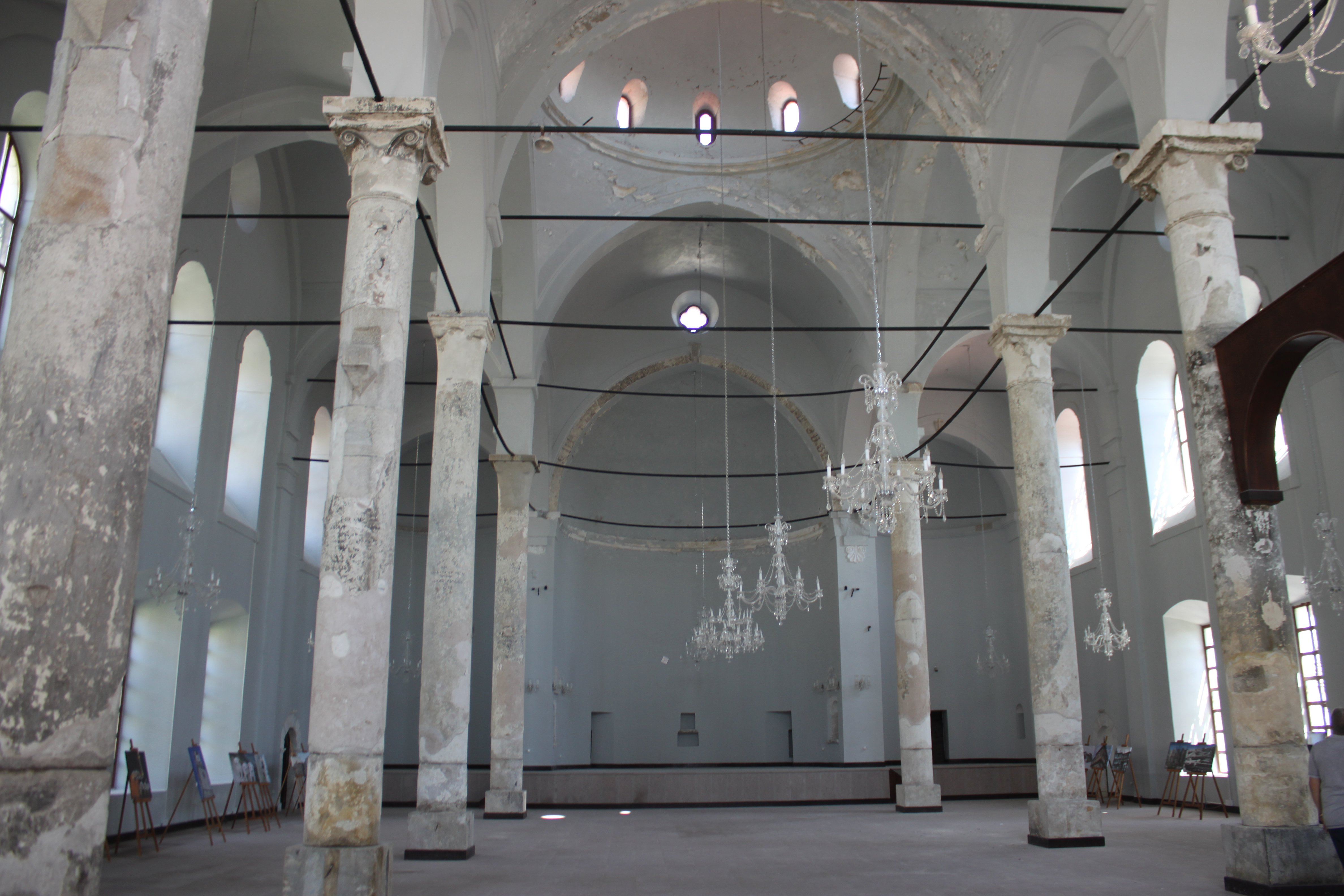 Inside the Holy Trinity Church; Sivrihisar